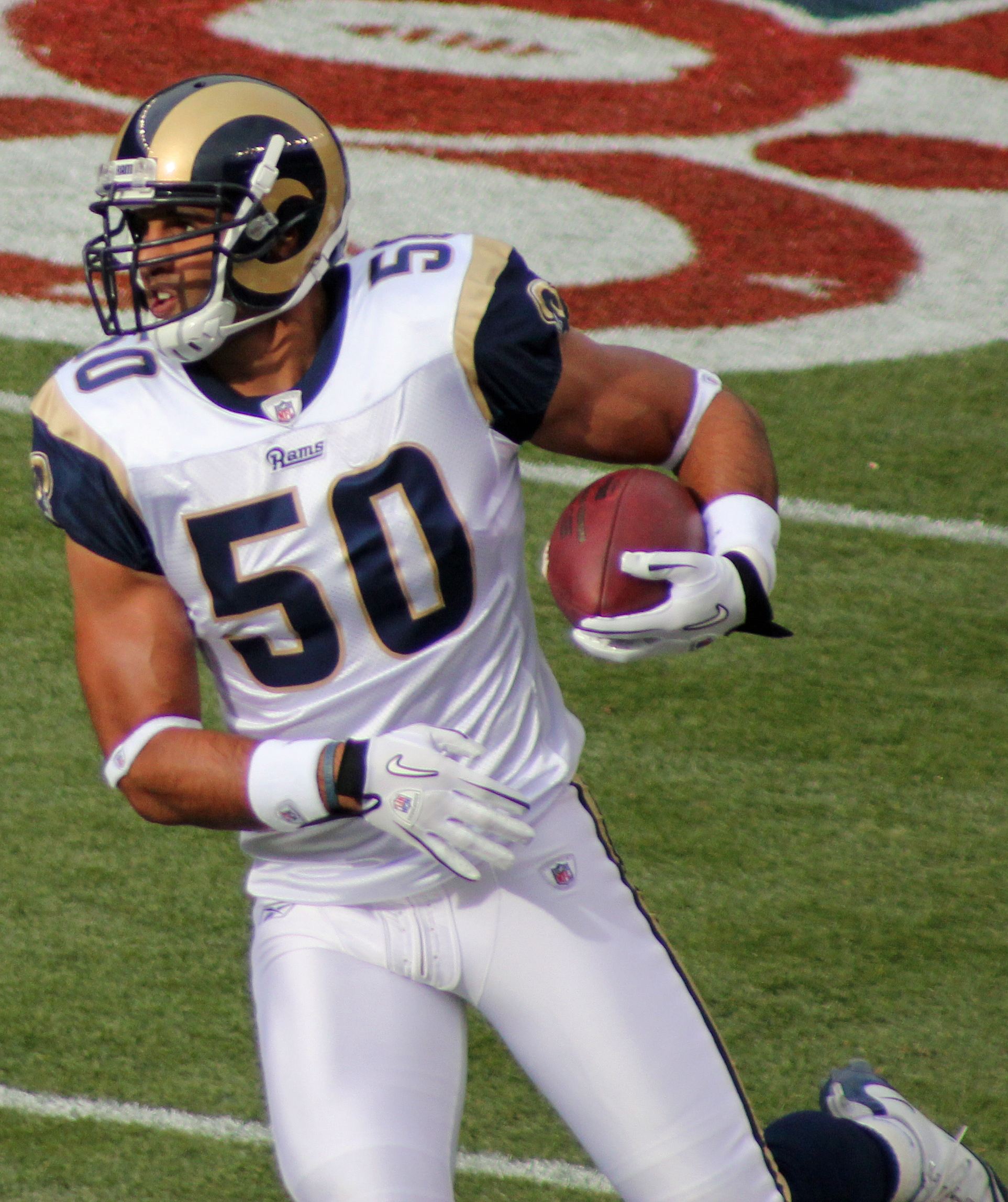 Bryan Kehl, a player on the Saint Louis Rams American football team.